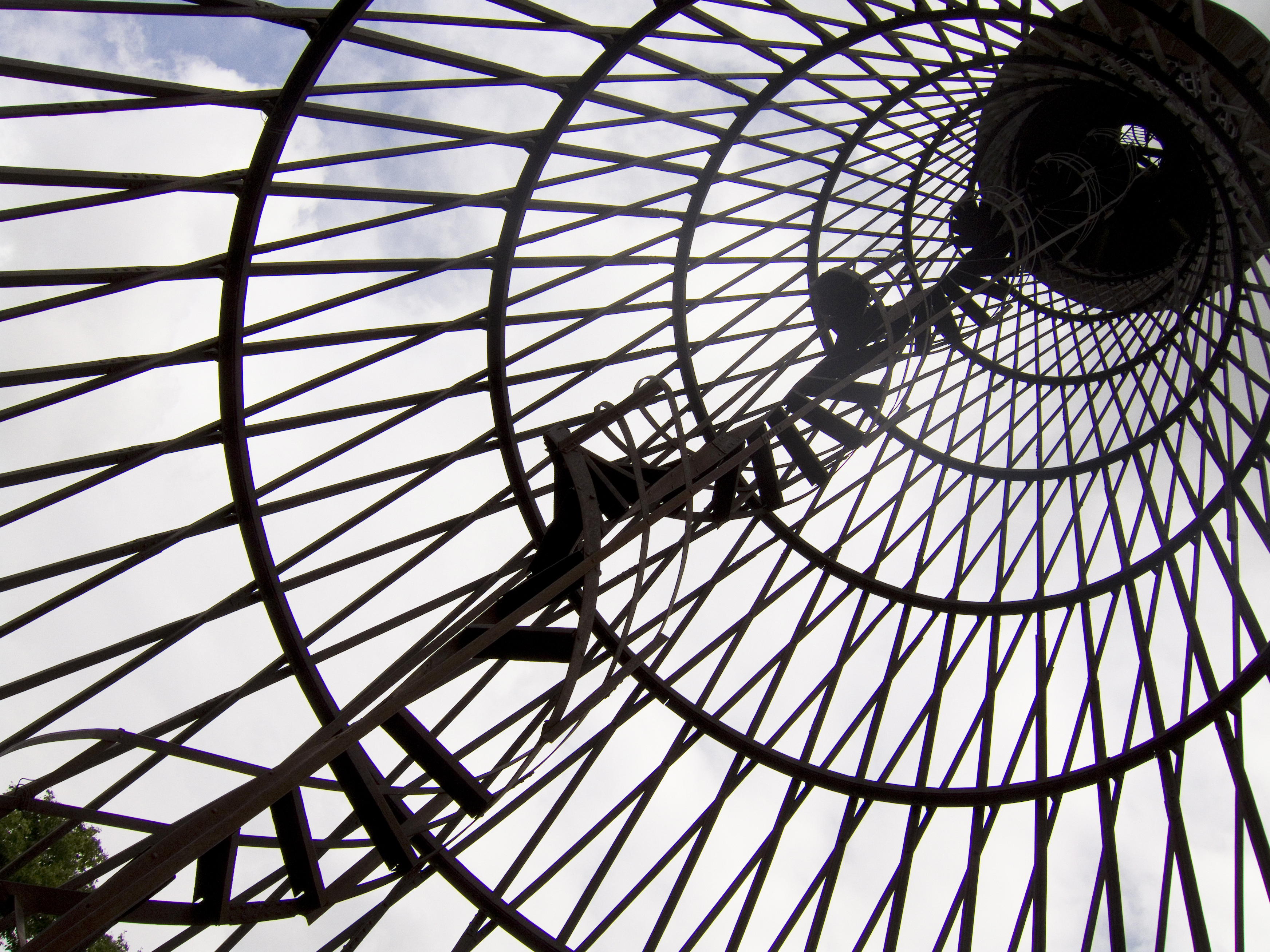 The World's First Hyperboloid Diagrid Shell structure. The Russian engineer and architect Vladimir Shukhov was the first in the world to invent and use in construction diagrid hyperboloid towers. For the 1896 All-Russia industrial and art exhibition in Nizhniy Novgorod Shukhov built the steel 37-meter tower, which became the first diagrid hyperboloid structure in the world. The astonishing hyperboloid diagrid structure caused delight of the European specialists ("The Nijni-Novgorod exhibition: Water tower, room under construction, springing of 91 feet span", "The Engineer" magazine, 1897, № 19.3. - P.292-294). After the exhibition had closed, the openwork tower of rare beauty was bought by the well-known Maecenas of that time Yury Nechaev-Maltsov and placed in his estate Polibino, Lipetsk Oblast, where it has preserved until now under the state protection. In the subsequent years, V.G.Shukhov developed numerous structures of various diagrid steel hyperboloids and used them in hundreds water towers, sea lighthouses, masts of warships and supports for power transmission lines. The hyperboloid structures appeared in Spain (Gaudi) and USA (battleship masts) only 10 years after the Shukhov's invention.